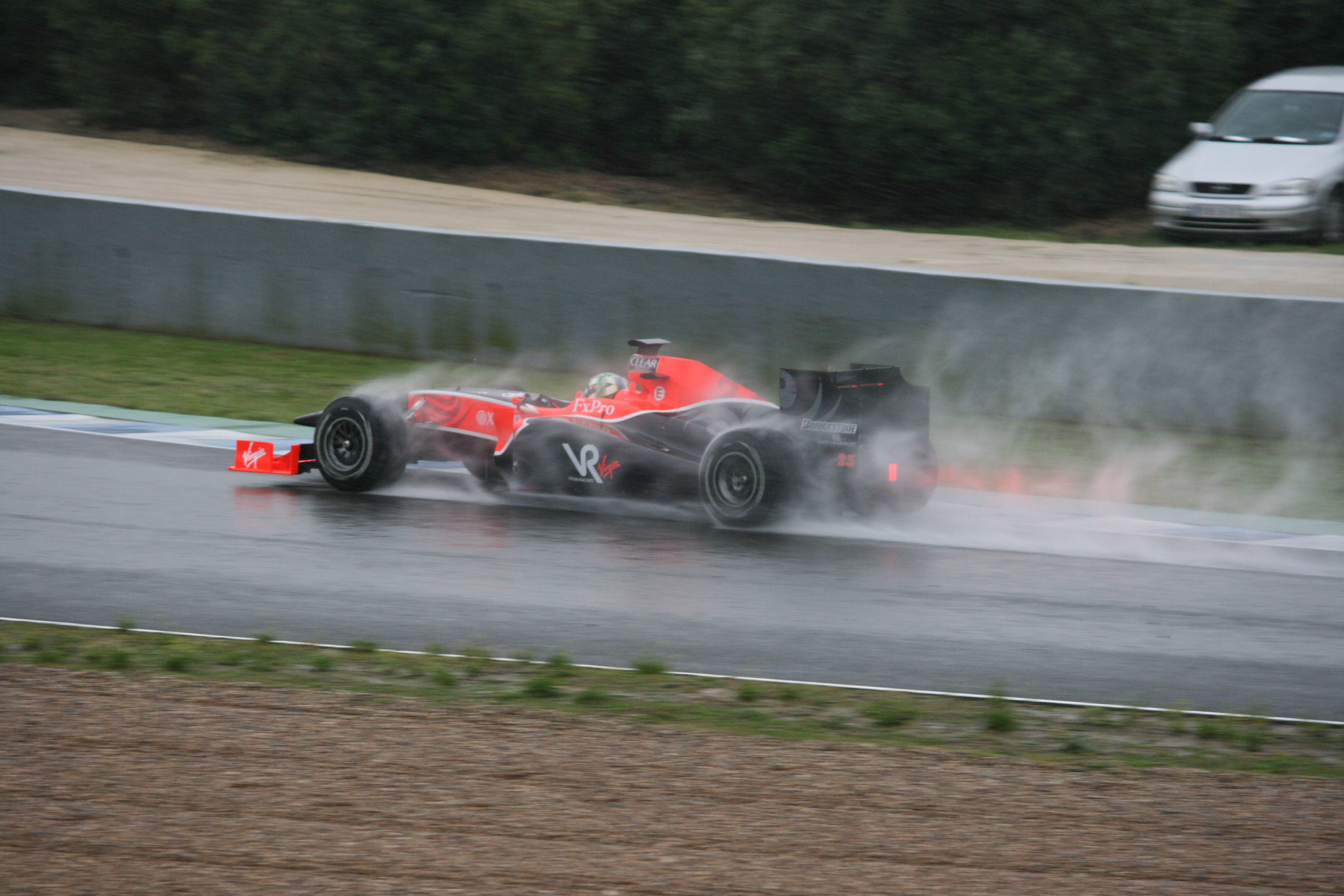 Lucas di Grassi testing for Virgin Racing at Jerez, 12/02/2010.